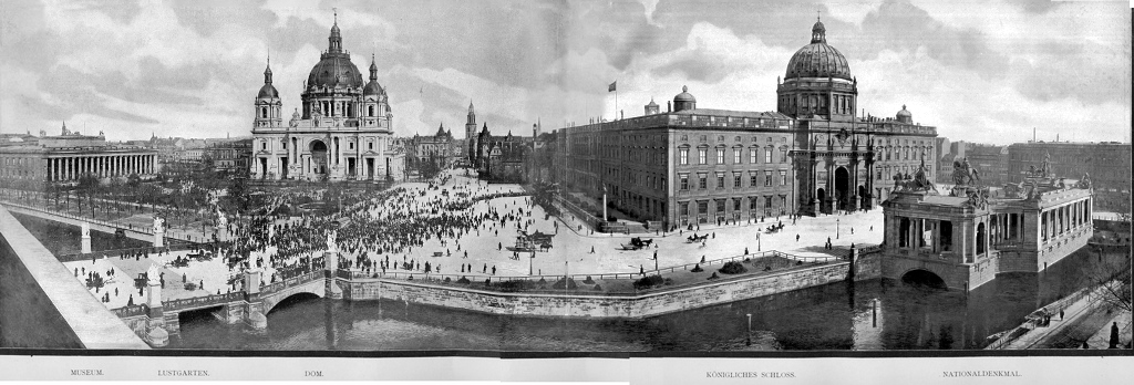 Berlin, Kaiser Wilhelm memorial on the western side of Berlin city palace. This image was recombined out of 3 images to create one image with a higher quality.